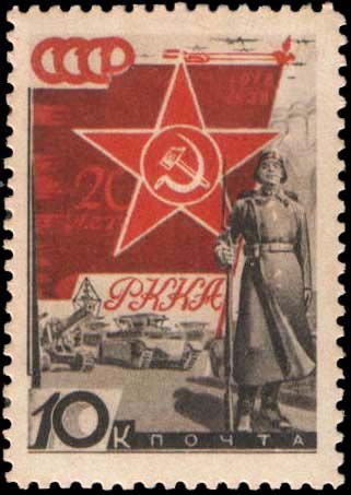 Stamp of USSRː Infantryman. Issueː 20th Anniversary of the Workers’ & Peasants’ Red Army and the Workers’ & Peasants’ Red Fleet of the USSR